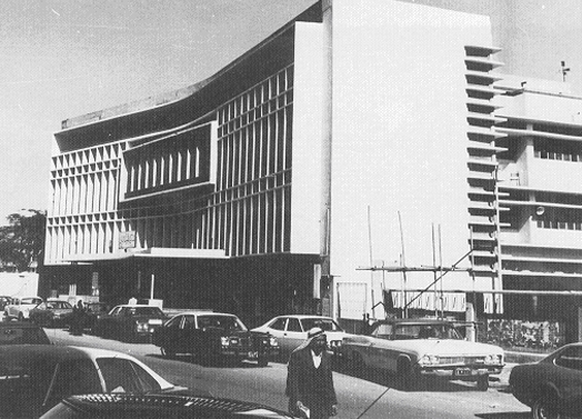 Picture of Almubarkiya School early 1960s and then the National library of Kuwait